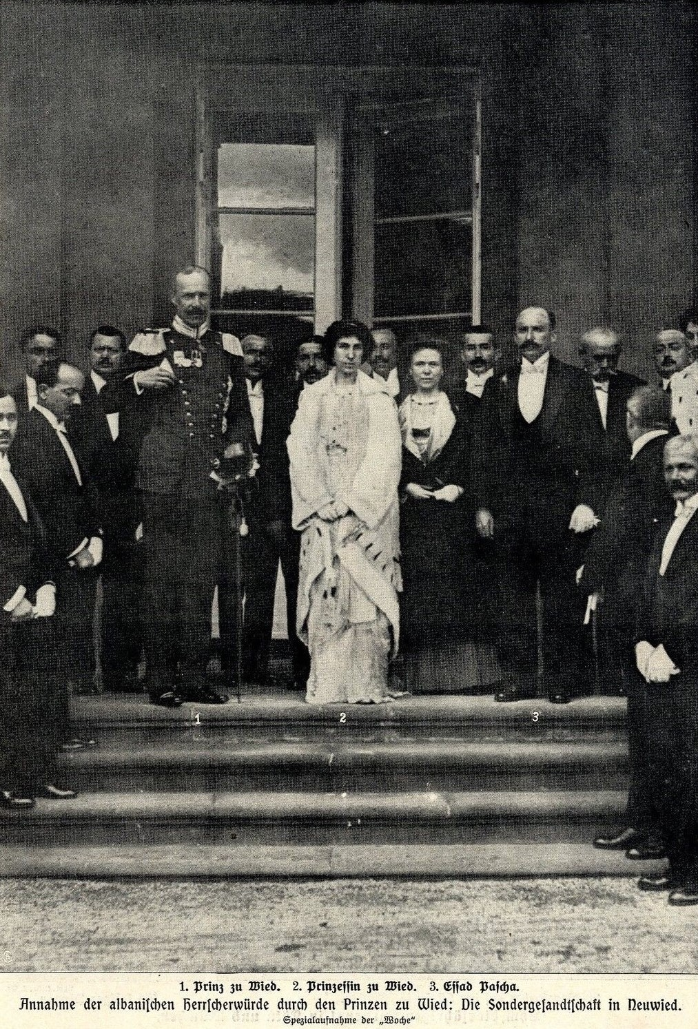 Prince and Princess of Albania aka Princess Sophie of Schönburg-Waldenburg and William, plus Essad Pasha in Neuwied, 1914